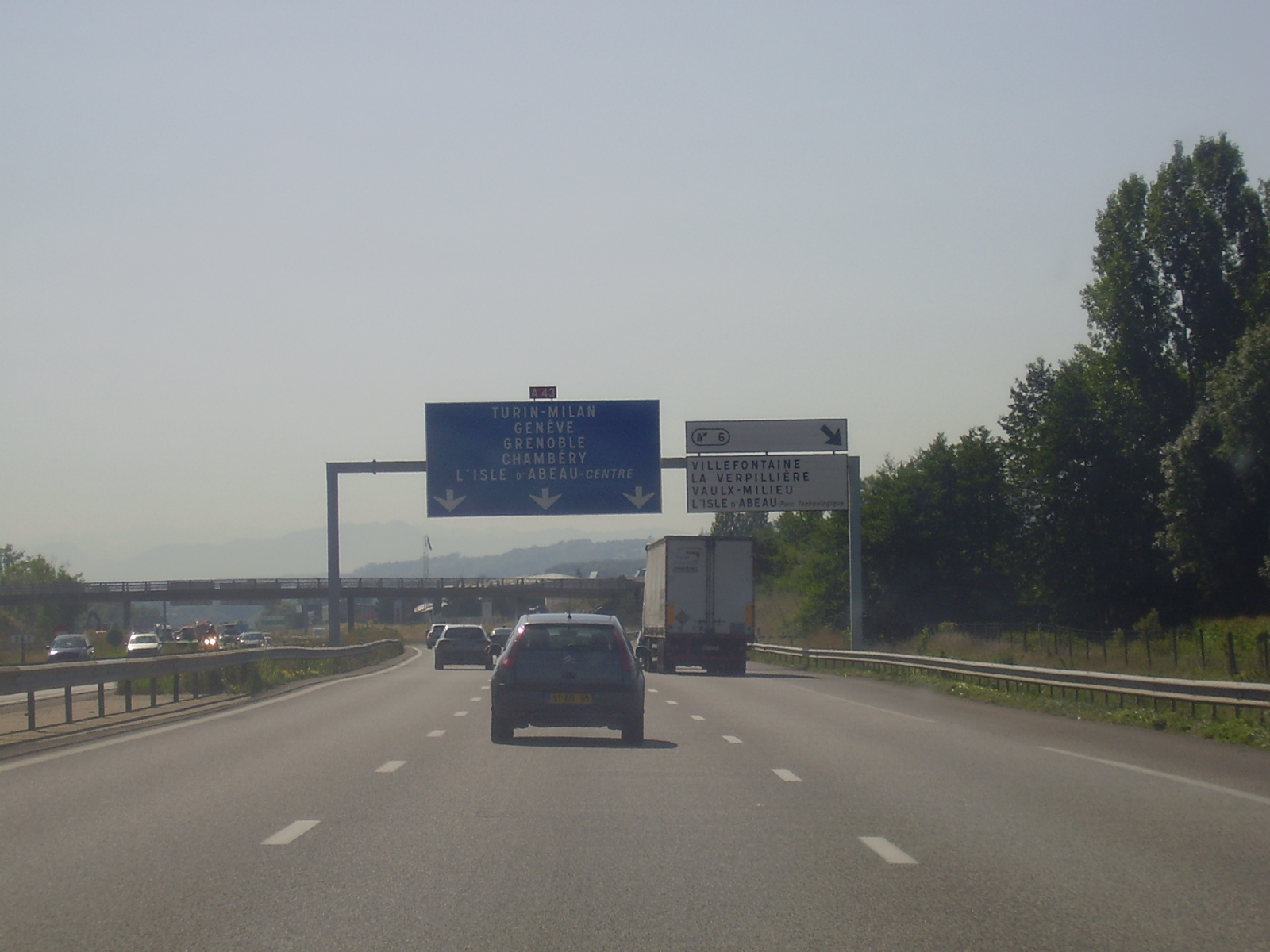 A43 motorway in France (Lyon - exit 6 - Chambéry)